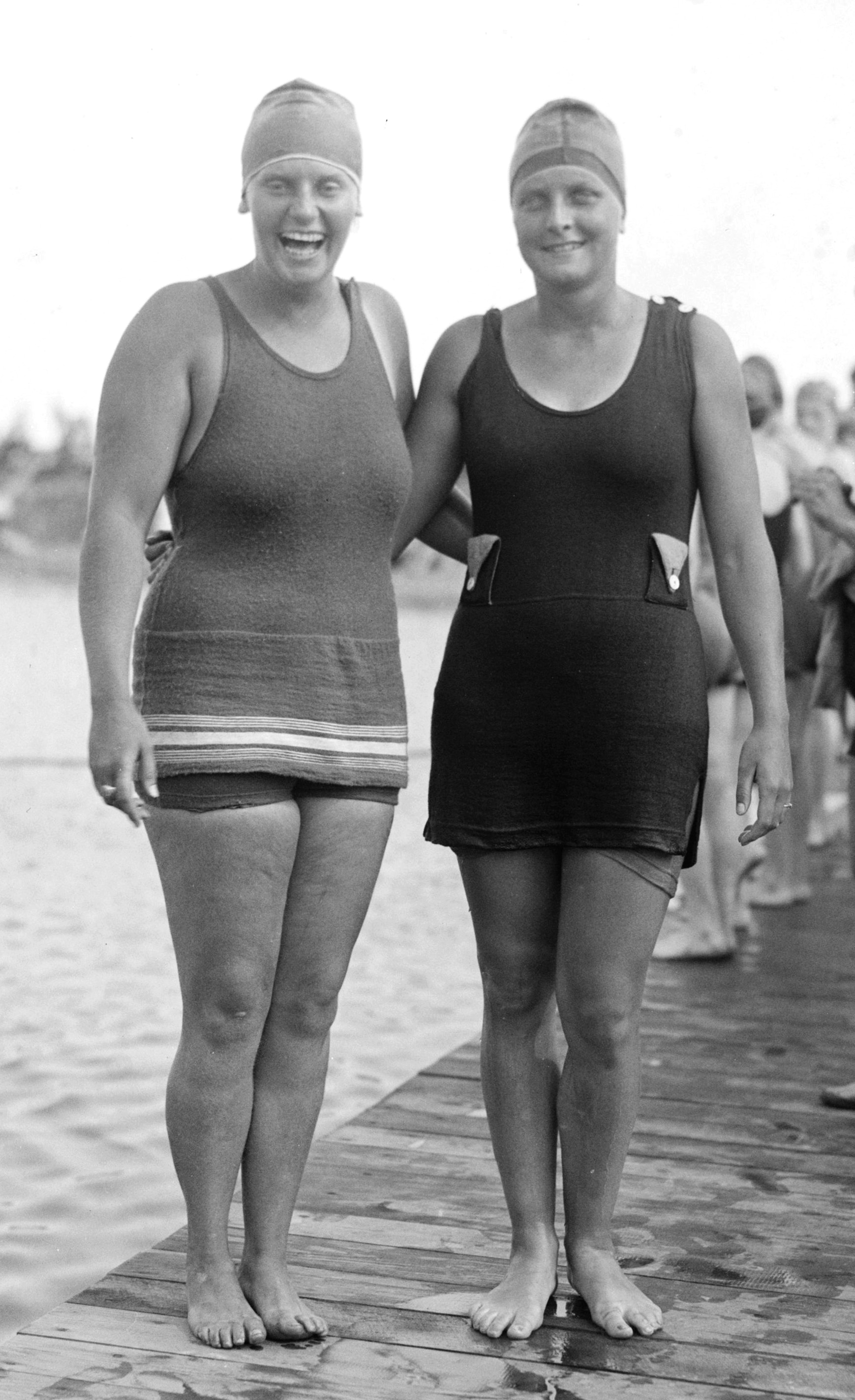 Bain News Service, publisher. Charlotte Boyle and Ethelda Bleibtrey